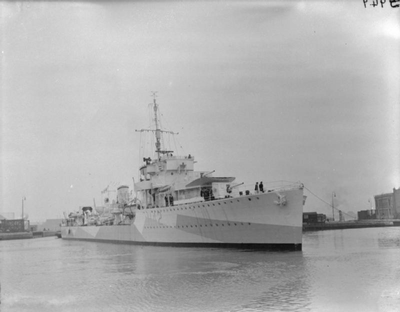 British destroyer HMS ARROW.